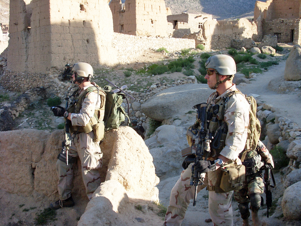 Members of Operational Detachment Alpha 3336, 3rd Special Forces Group (Airborne) recon the remote Shok Valley of Afghanistan where they fought an almost seven-hour battle with insurgents in a remote mountainside village.